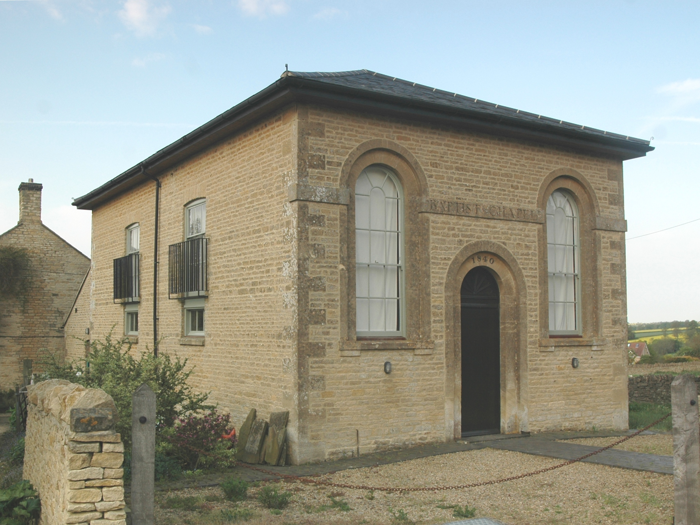 Former Baptist chapel at Chadlington, Oxfordshire, built in 1840 and now a private house.